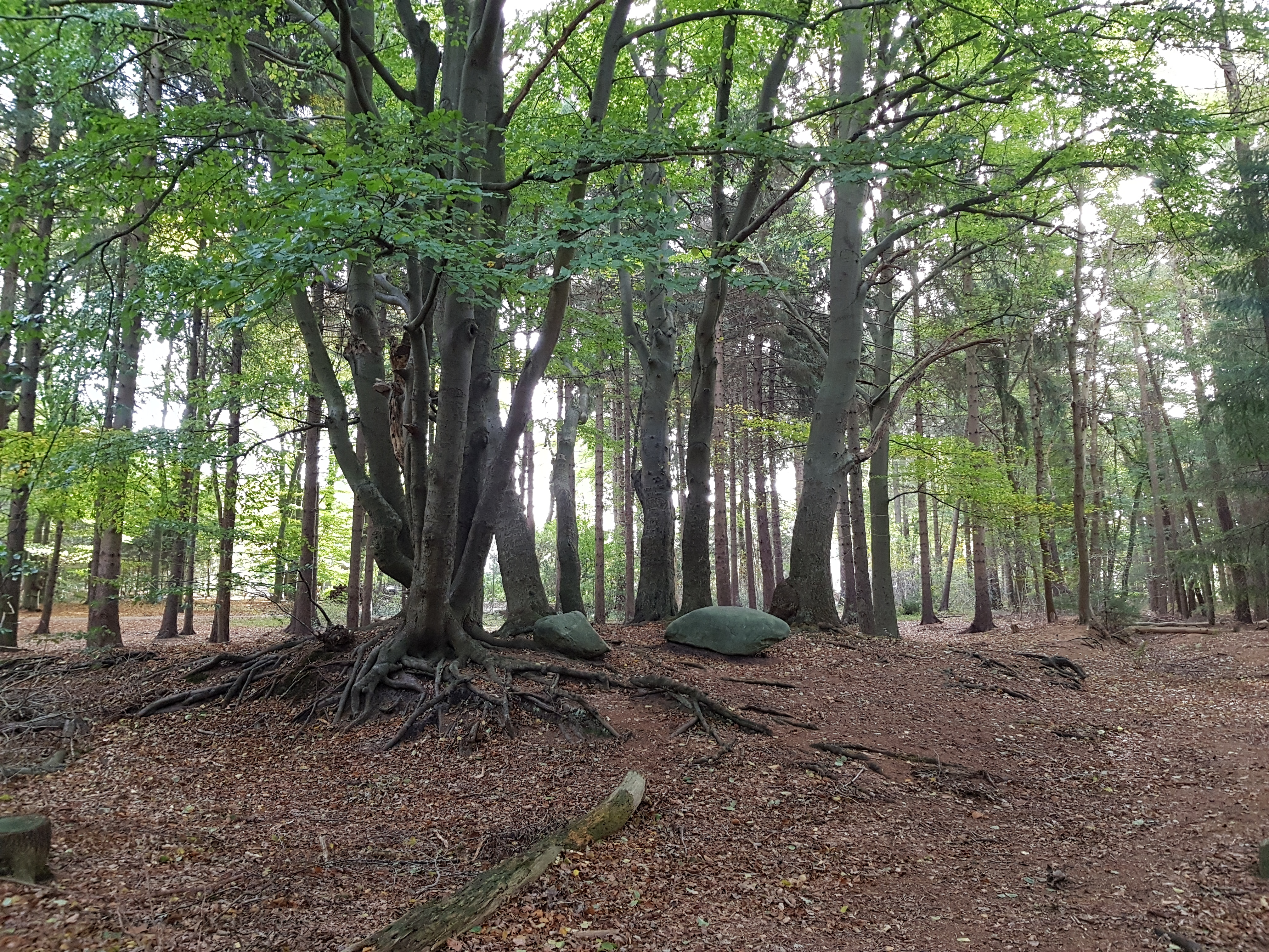 Koe en Kalf, two stone blocks near Steenwijk, Netherlands